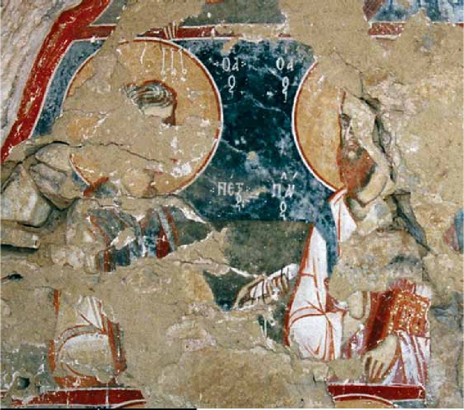 Fresco of Sts. Peter and Paul in Sts. Peter and Paul cave Church in Konjsko, Macedonia